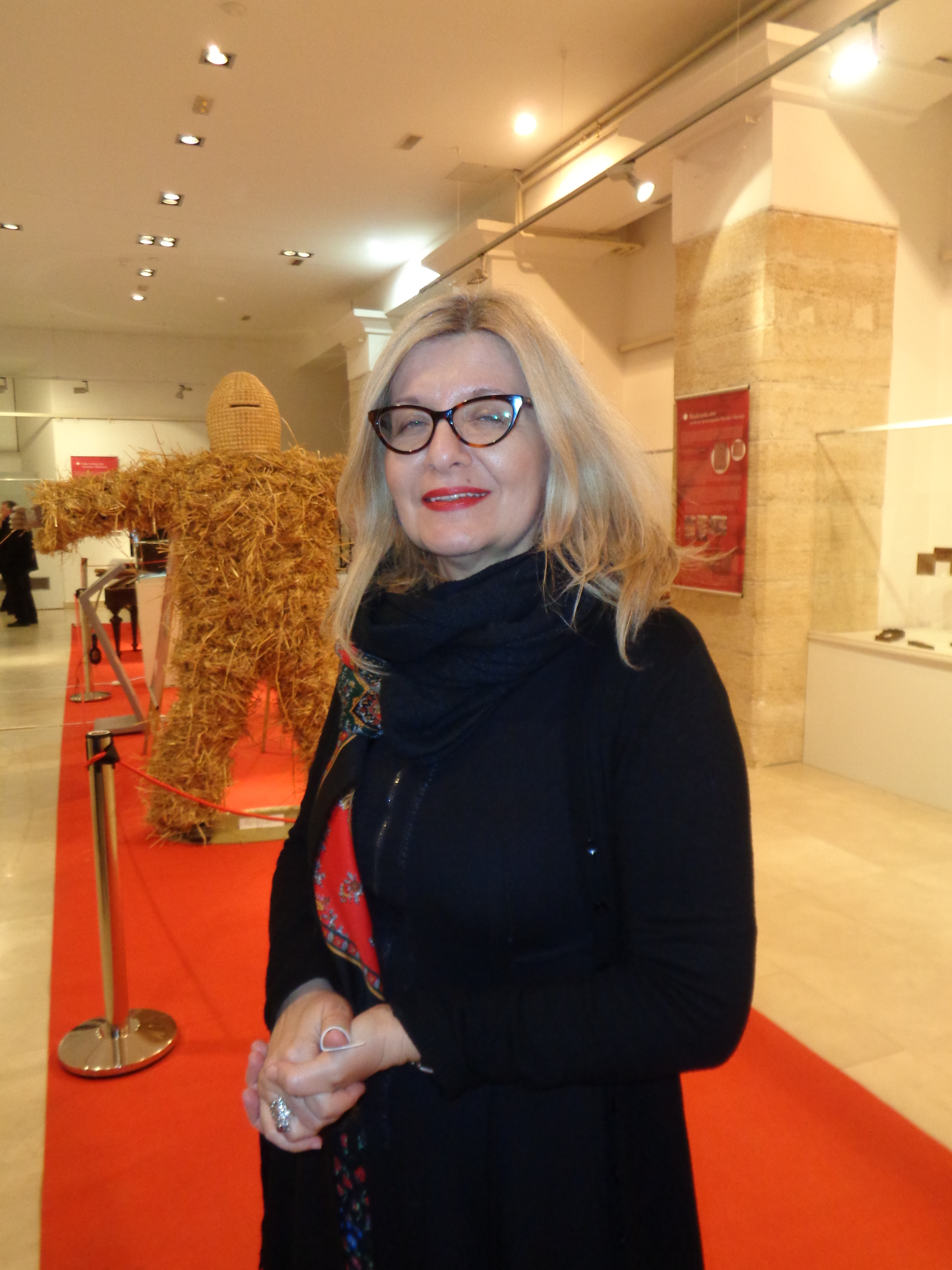 Lidija Bajuk (b.1965 in Čakovec), Croatian singer, songwriter and poet, at the 2018 Night of museums in Čakovec, Croatia